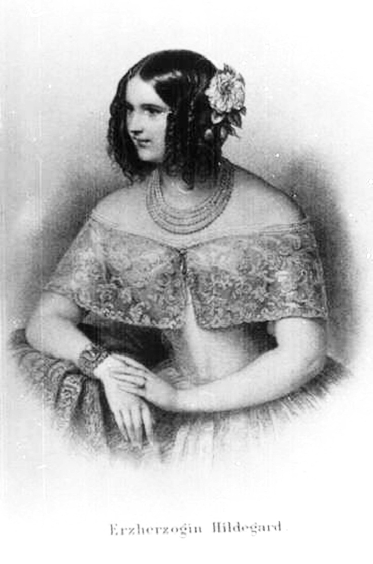 Duchess Hildegard Louise of Bavaria 1825-1864, daughter of King Ludwig I of Bayern, wife of Archduke Albrecht of Austria